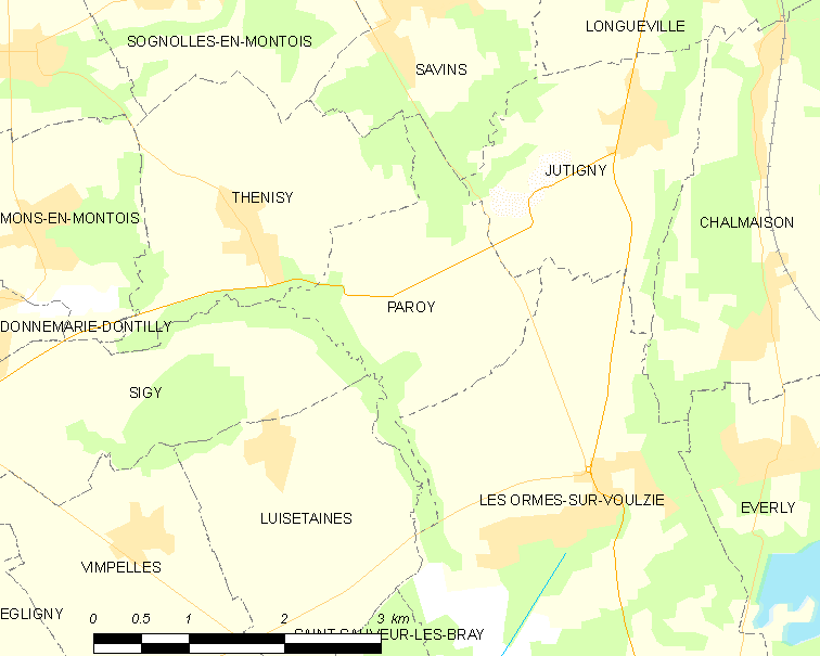 Map of French municipality Paroy